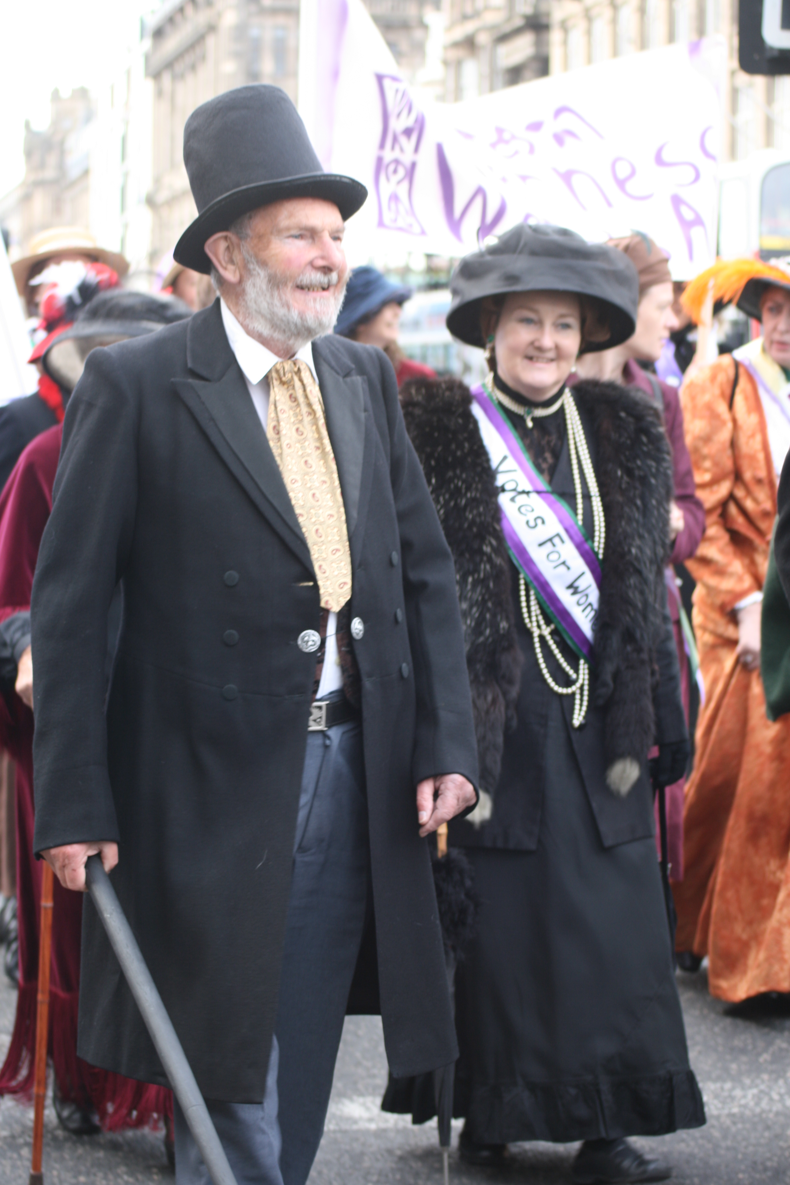 Participants in the Gude Cause Procession, Edinburgh 2009, dressed in period dress of 1909